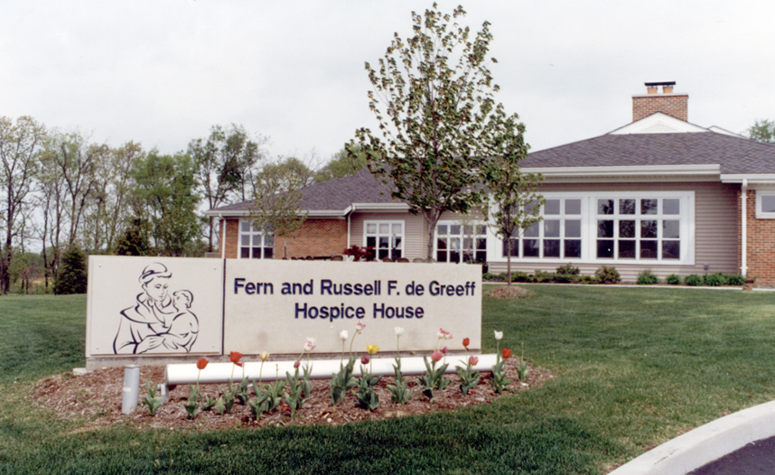 The de Greeff Hospice House is part of St. Anthony's Medical Cente in St. Louis, Missouri. Photo by Kevin McDaniel